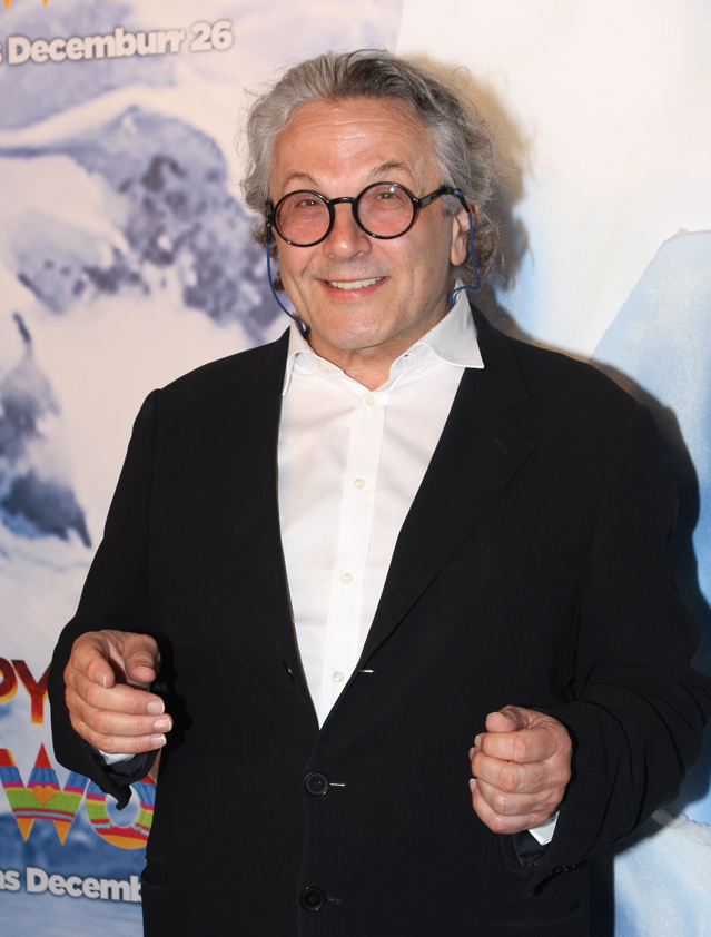 George Miller at the Australian Premiere of Happy Feet Two in Sydney (release date December 15, 2011)